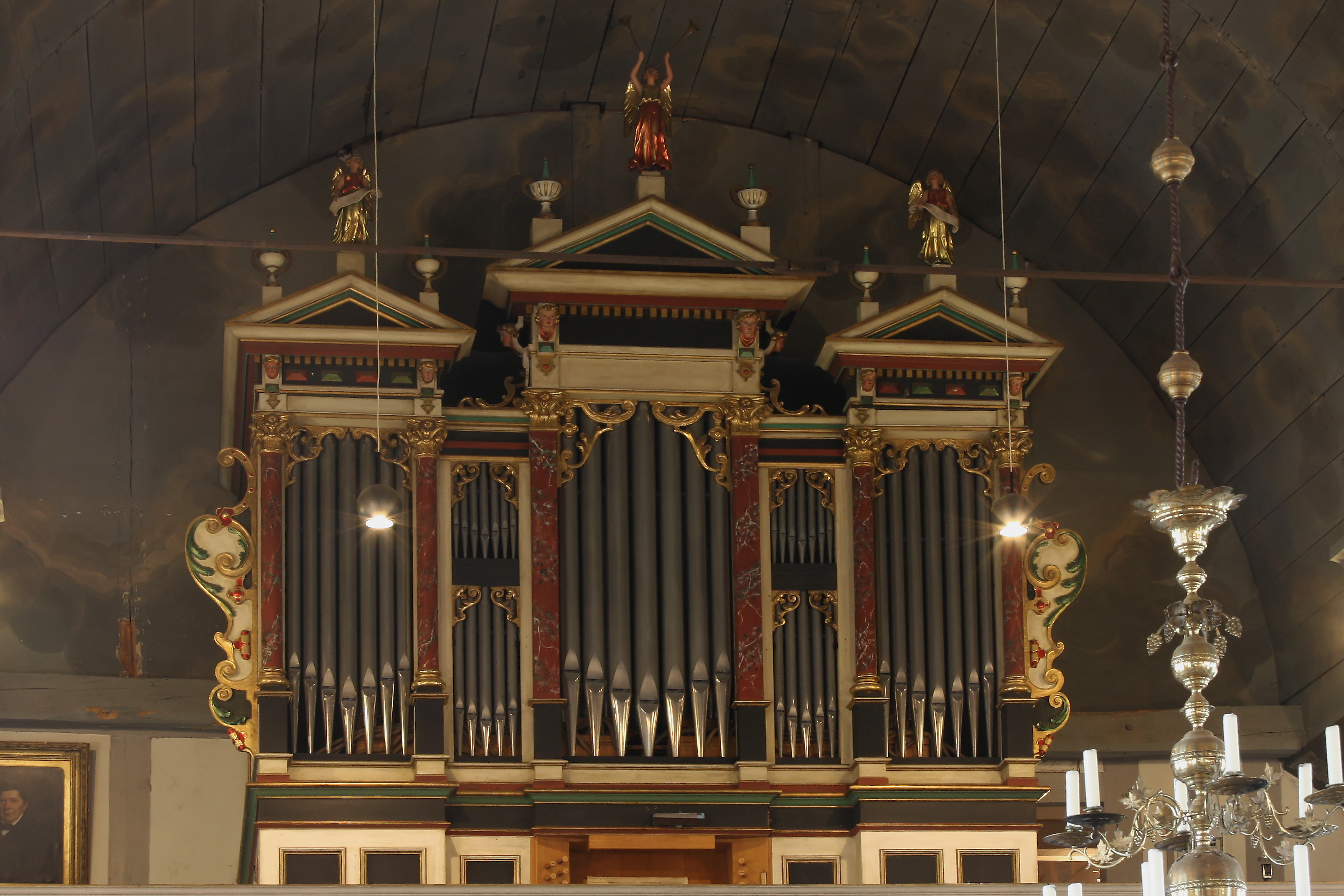 Pipe organ of the Trinitychurch in Hamburg-Allermöhe